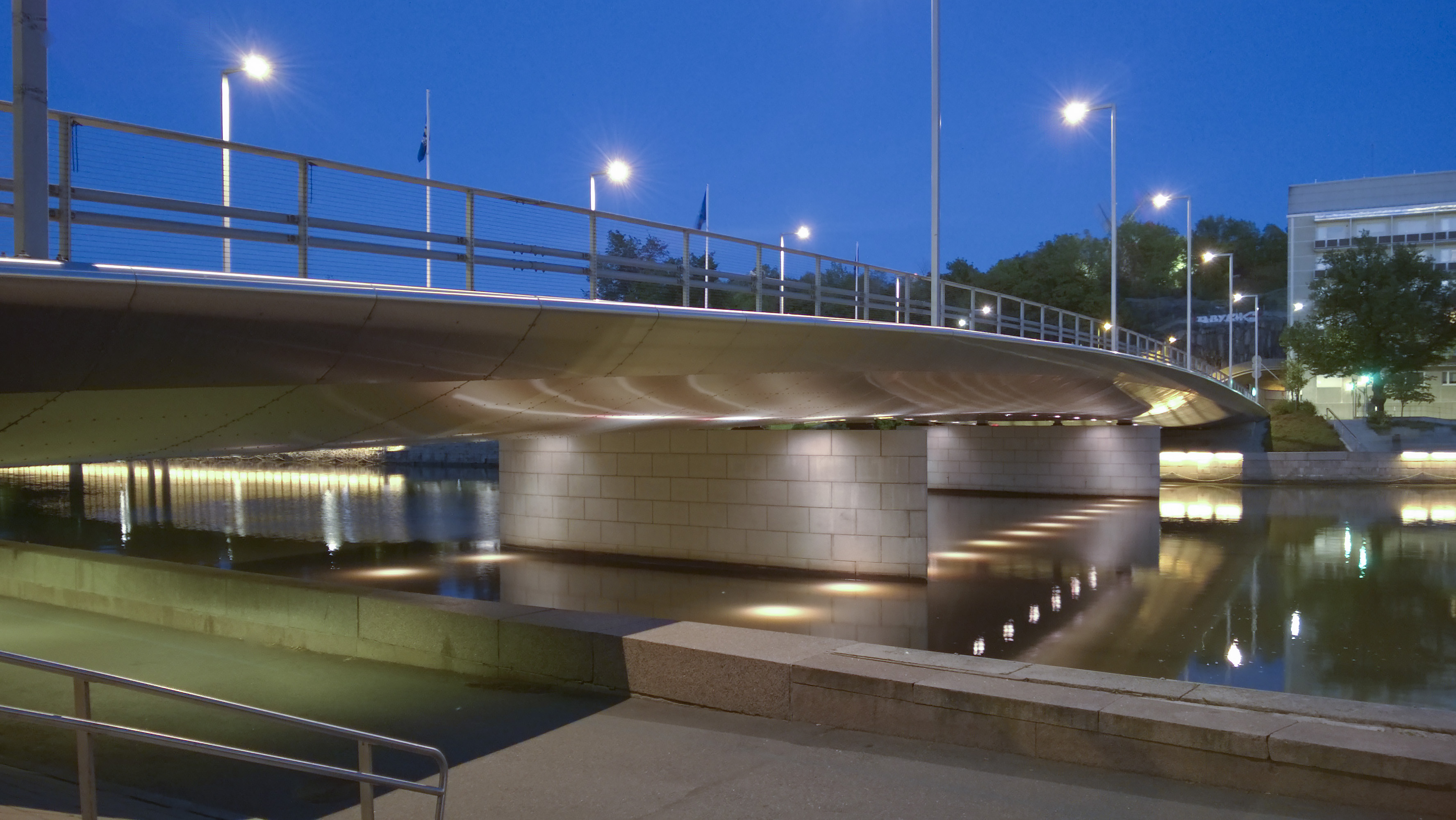 Bridge in Turku